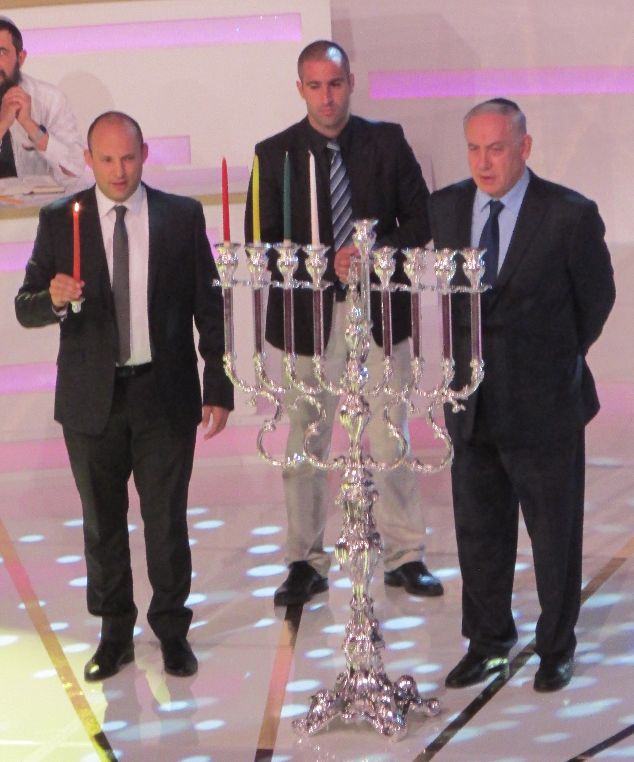 Israeli Prime Minister Benjamin Netanyahu and Education Minister Nafatali Bennett light a Chanukkah candle in the Israeli Bible Quitz, 2015